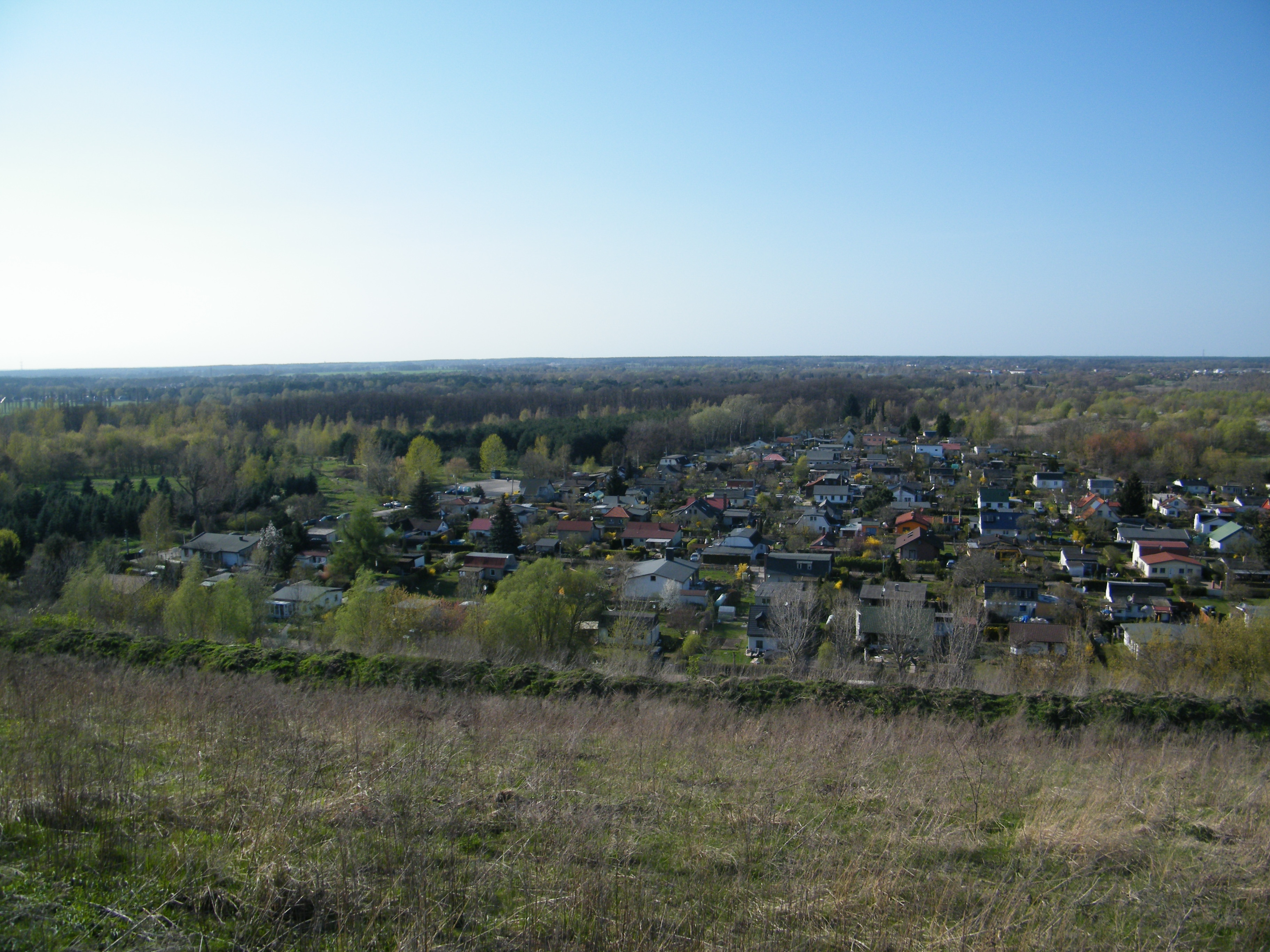 Siedlung Arkenberge, in the North of Berlin.